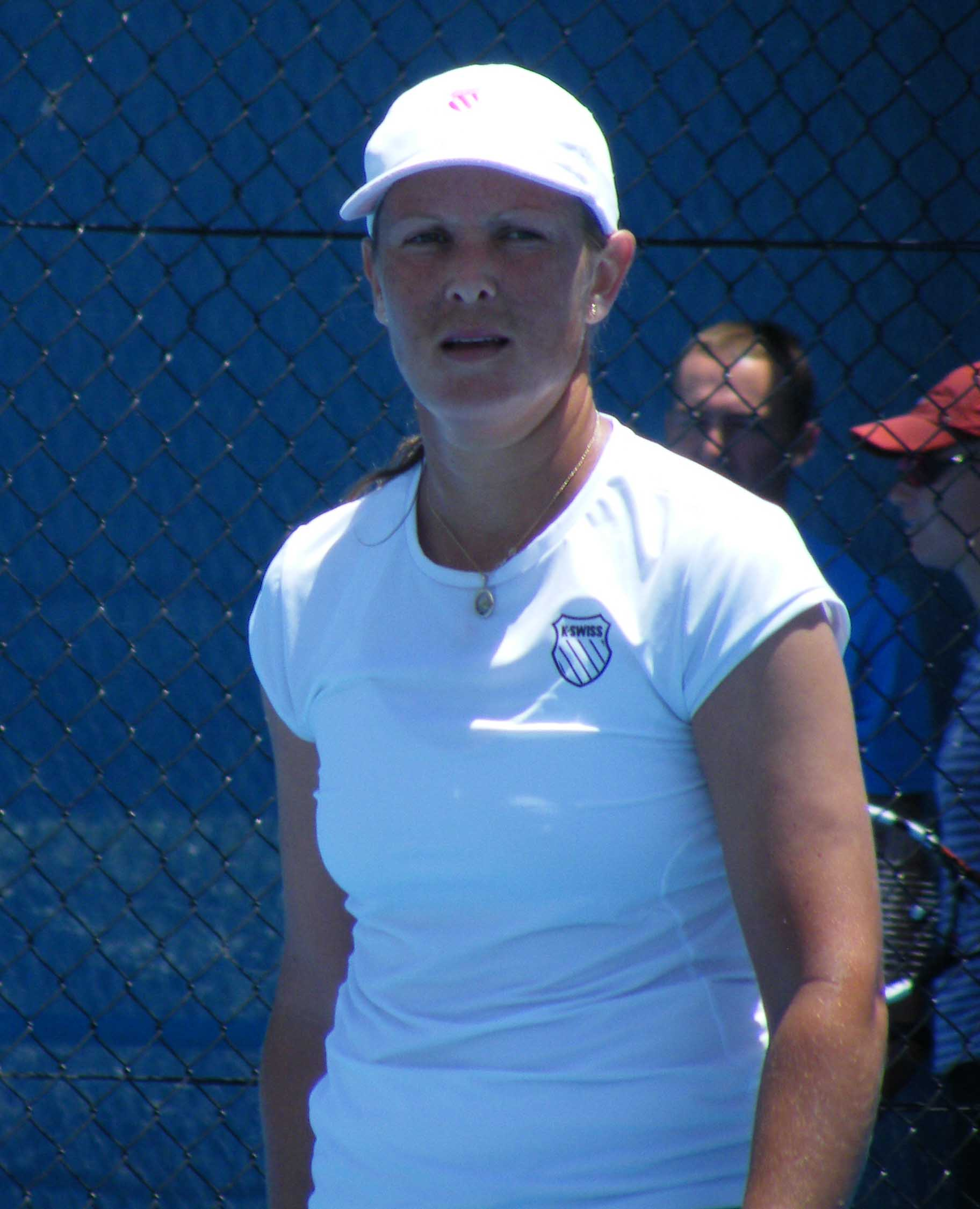 Liezel Huber of South Africa - NSW Tennis Open, January 2009.